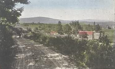 The Blue Hills and the Job Hills from Northwood Road, Strafford, NH; from an old postcard.